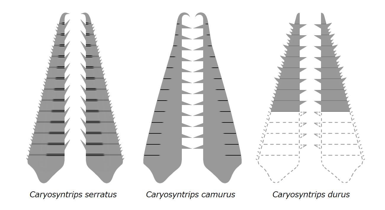 Frontal appendages of the radiodont genus Caryosyntrips. Dash line indicating unknown regions.